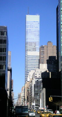 View of the Bloomberg tower in New York City